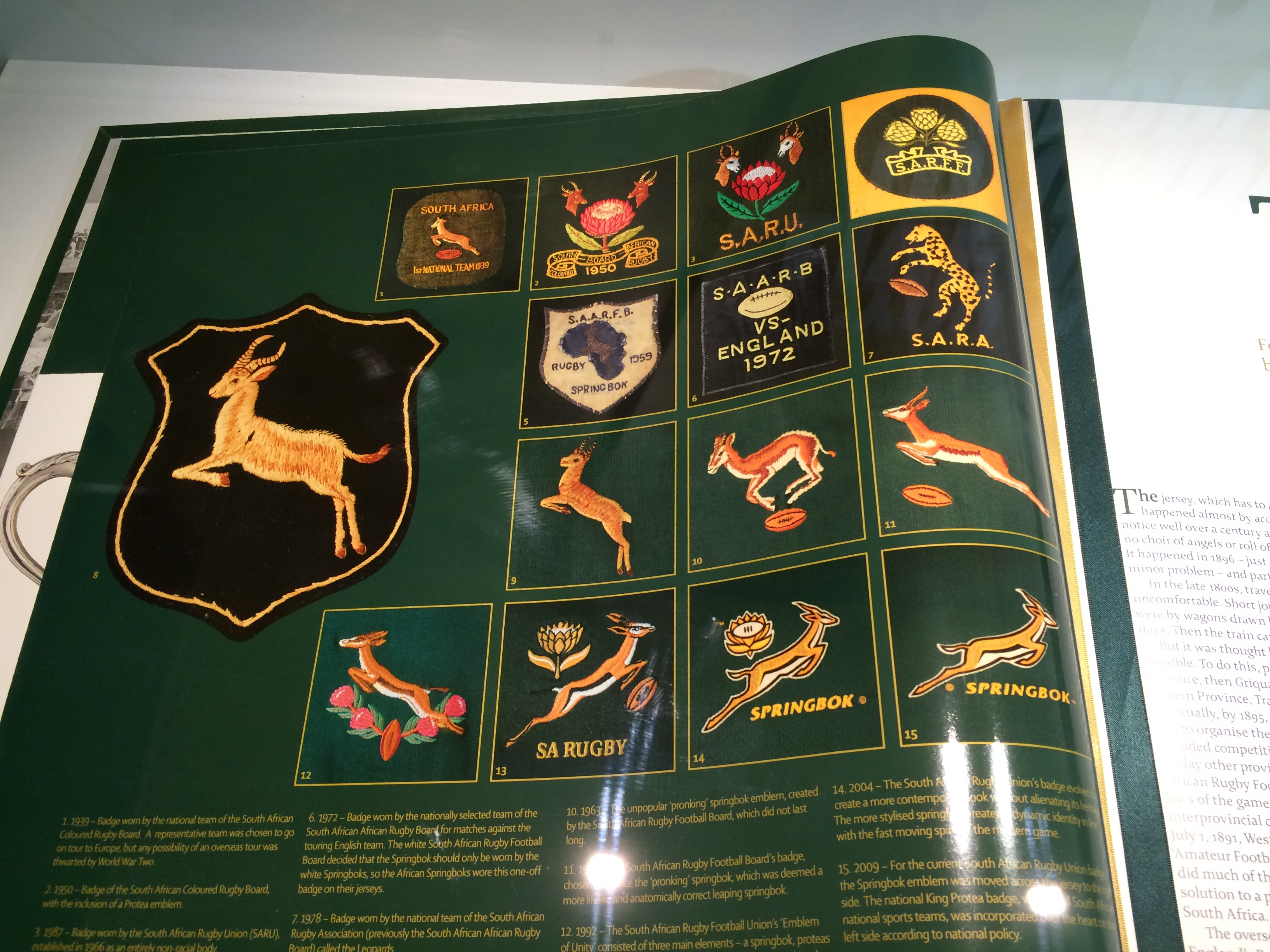 Springboks Emblems, Springbok Museum, Cape Town, Western Cape, South Africa.